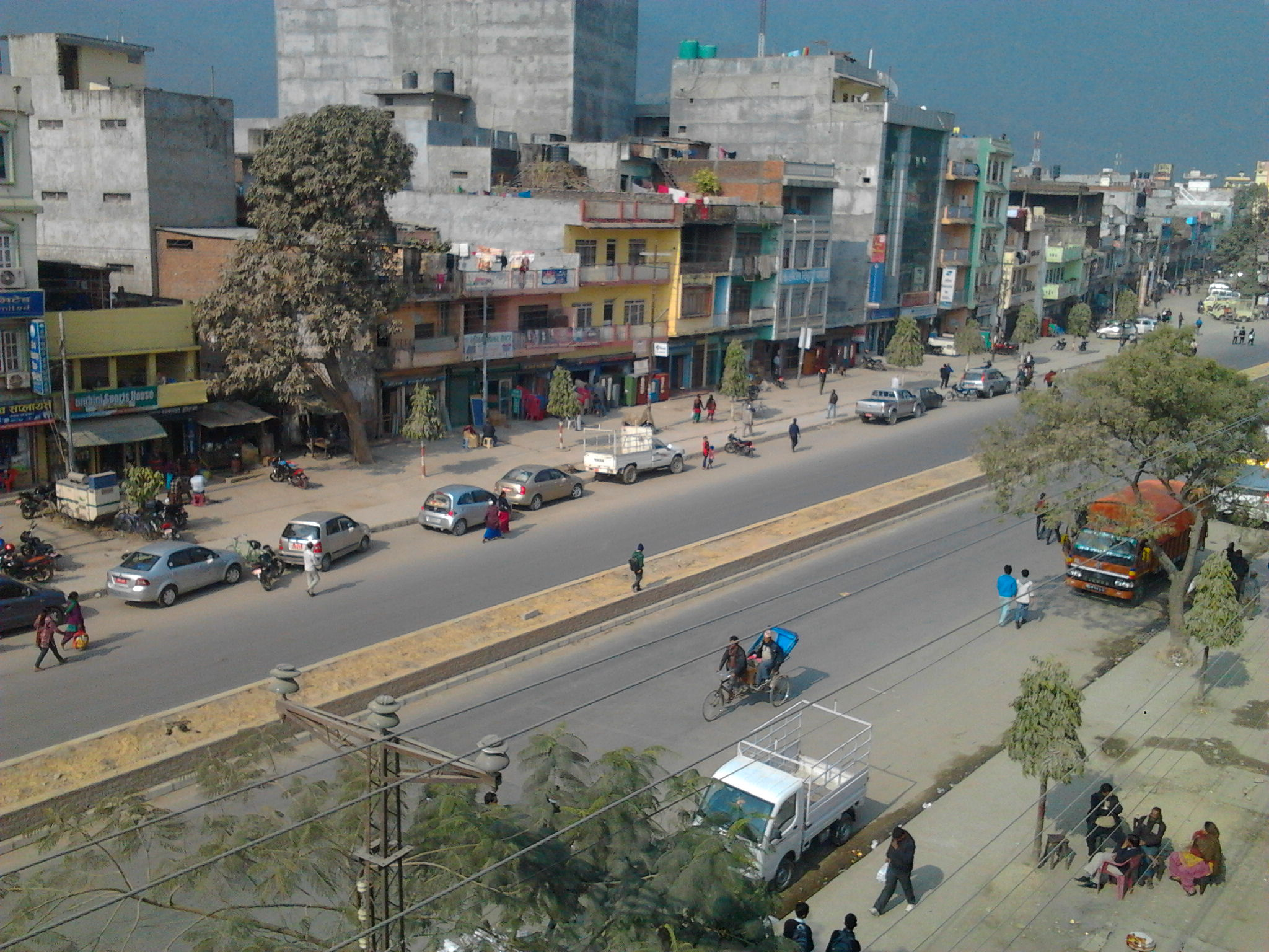 butwal city's a view from top of lumbini nurshing home